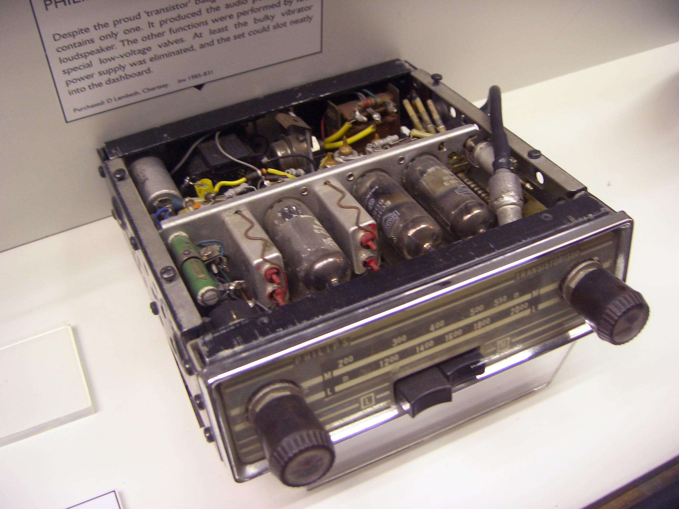 Historic Philips car receiver (long and medium wave reception only) with vacuum tubes on display in Science Museum, South Kensington, London, UK